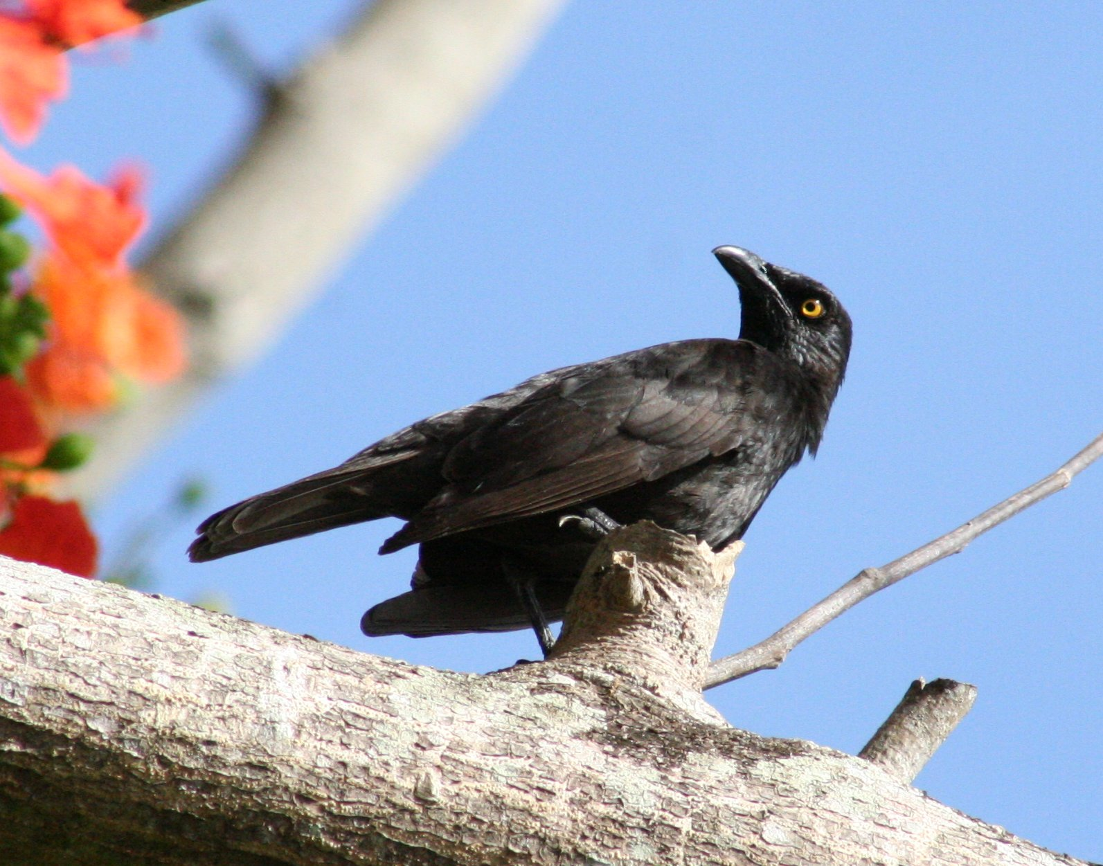 Micronesian Starling Aplonis opaca. The bright yellow eye is outstanding. Saipan, Micronesia.